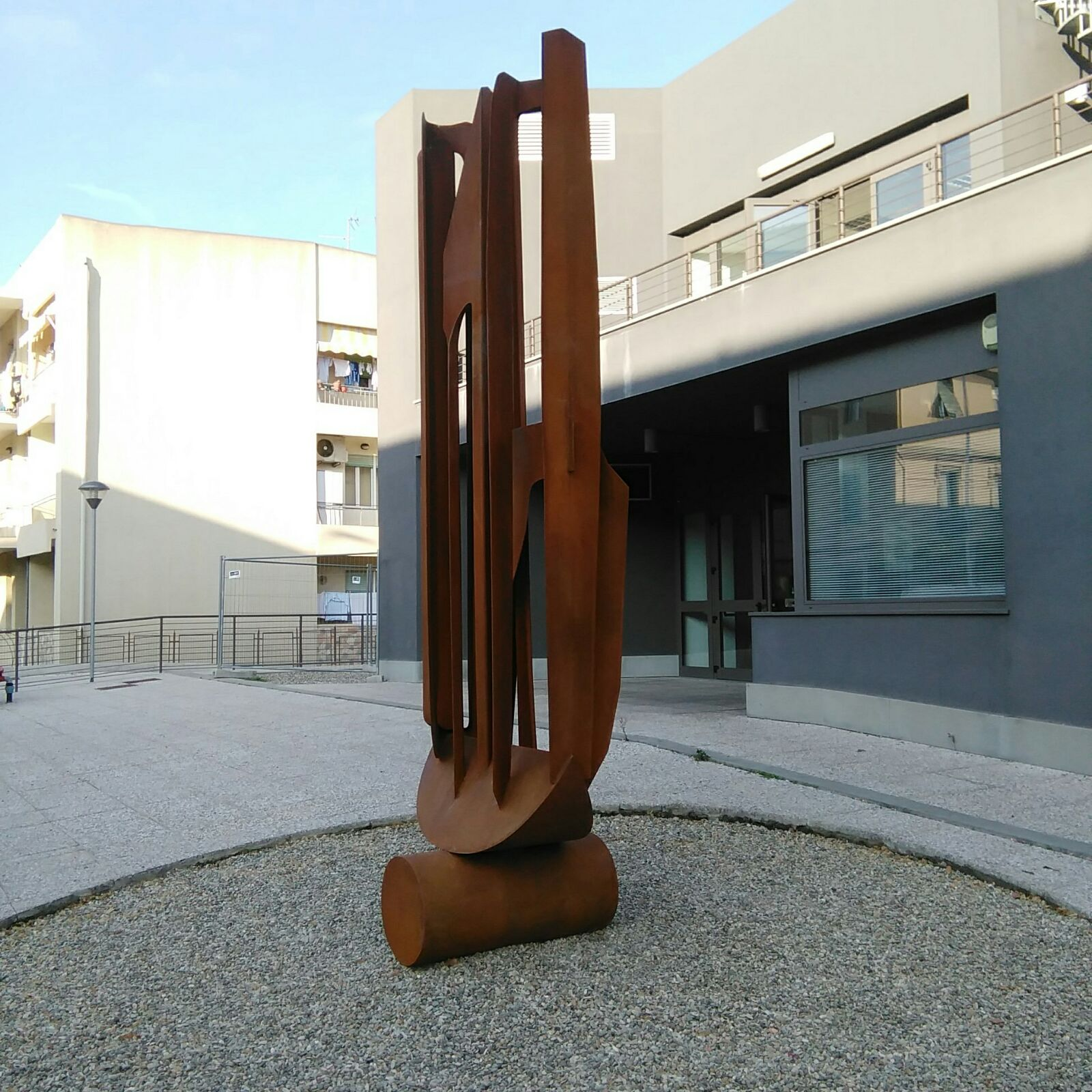 Monument "Equilibrio" (2015) of Giovanni Sicuro, in front of the Palazzo di Giustizia, Oneglia, Imperia, Italy